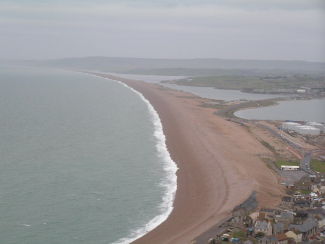 Chesil Beach (Southern end)